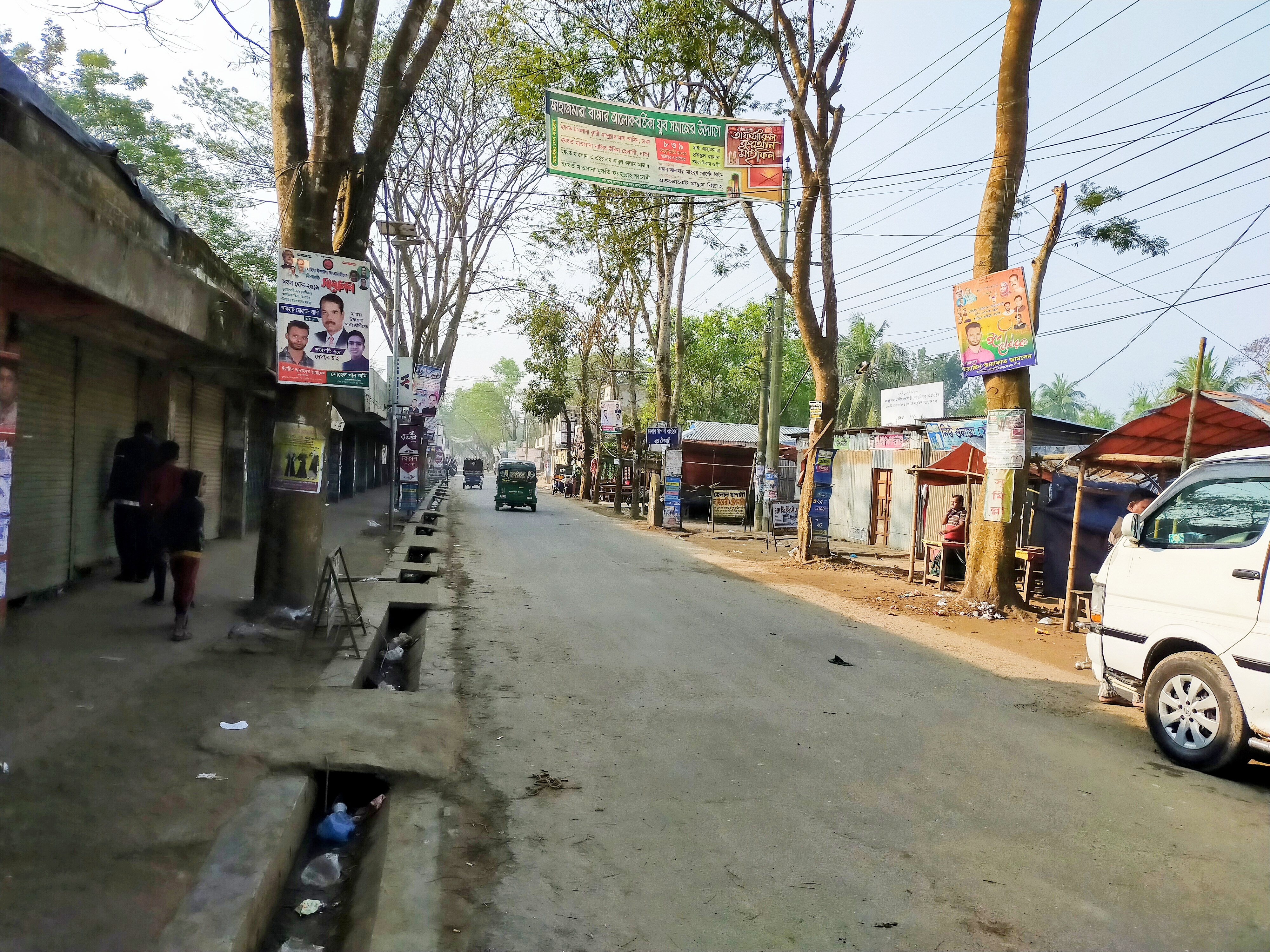 Nolchira- Jahajmara road, Hatiya, Noakhali. ( February 2020)